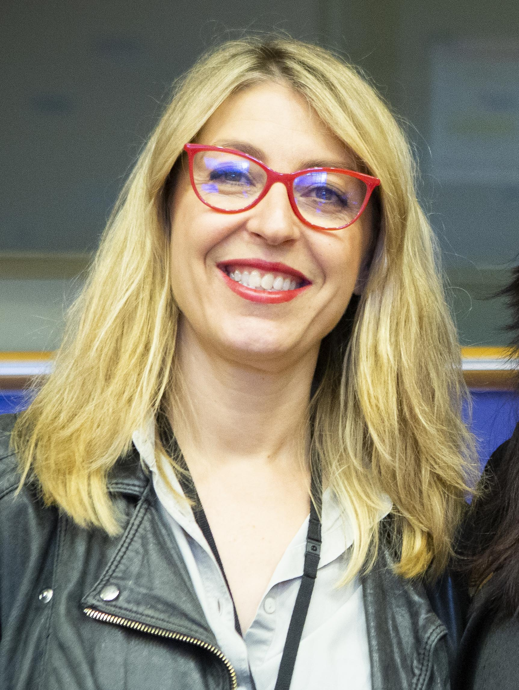 Ecofeminism and the fight of women against extractive industry